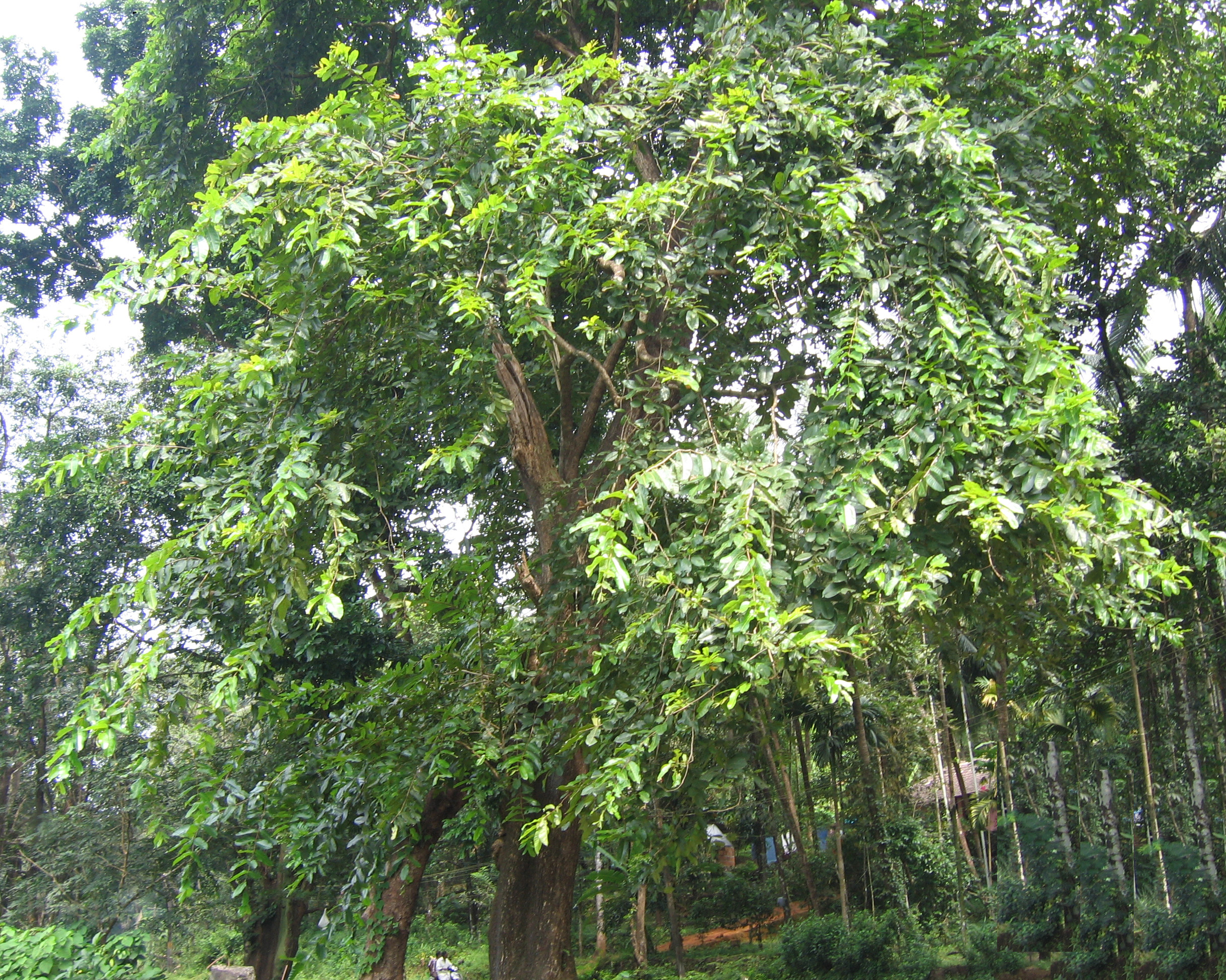 Terminalia paniculata canopy